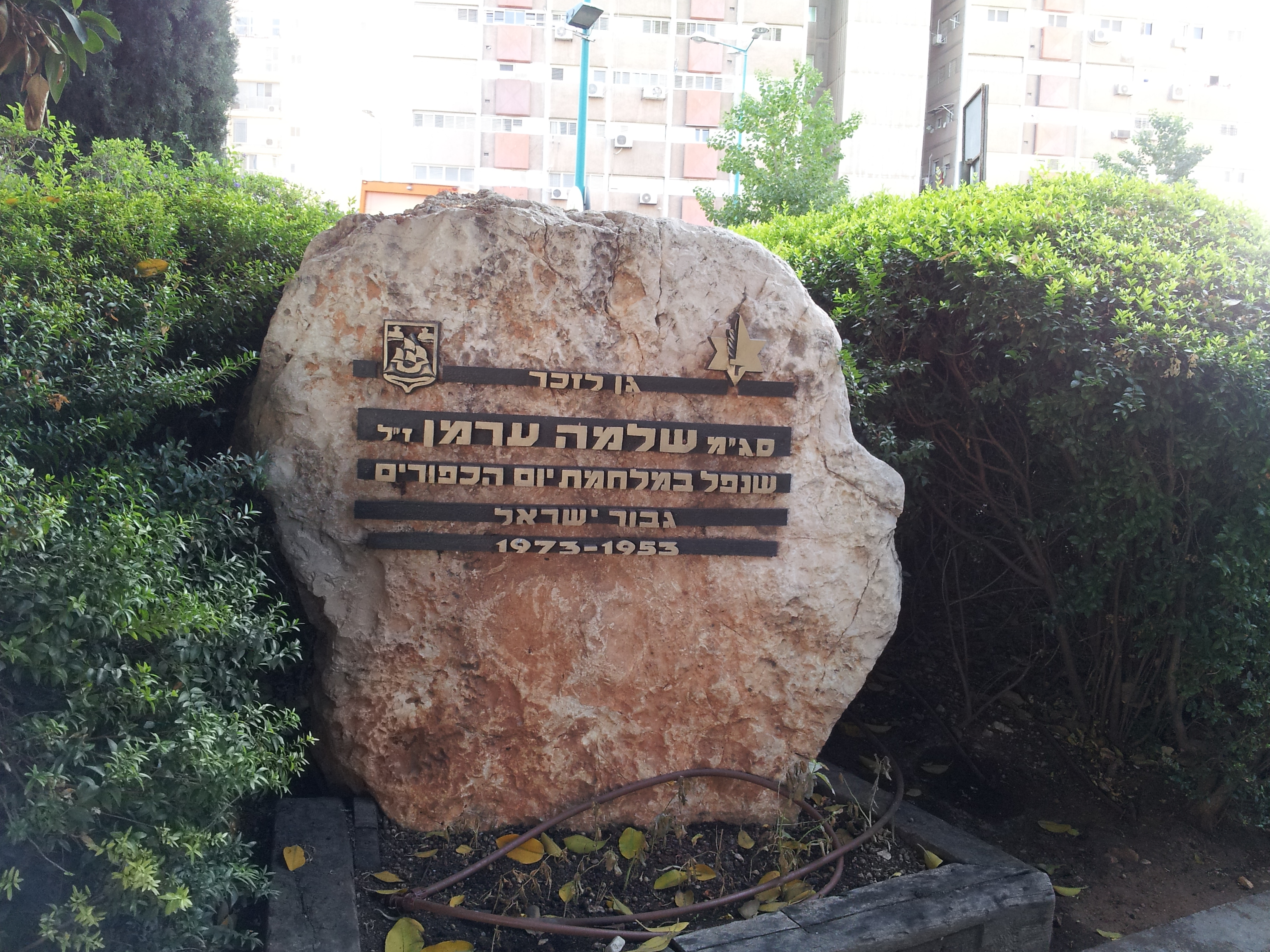 Shlomo Arman memorial stone in Neve Sha'anan, Haifa.